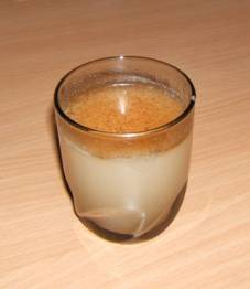 glass of sahlep